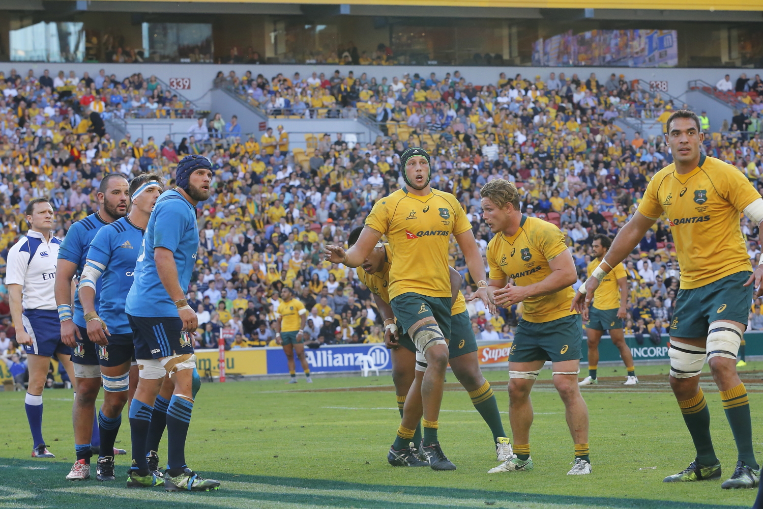 2017.06.24.15.42.20-AUSvITA The 2017 mid-year rugby union internationals, 24 June 2017, Australia vs Italy at Suncorp Stadium, Brisbane